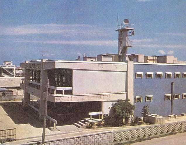 Okinawa Television Building in 1960s